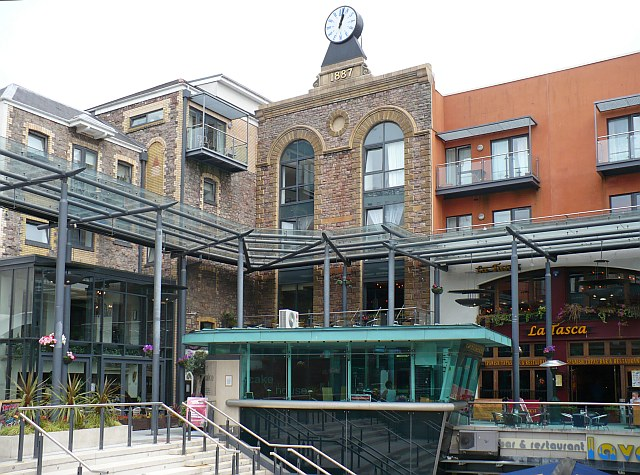 The Brewery Quarter, the site of the old Brains Brewery, which has been redeveloped and now contains several restaurants and bars.